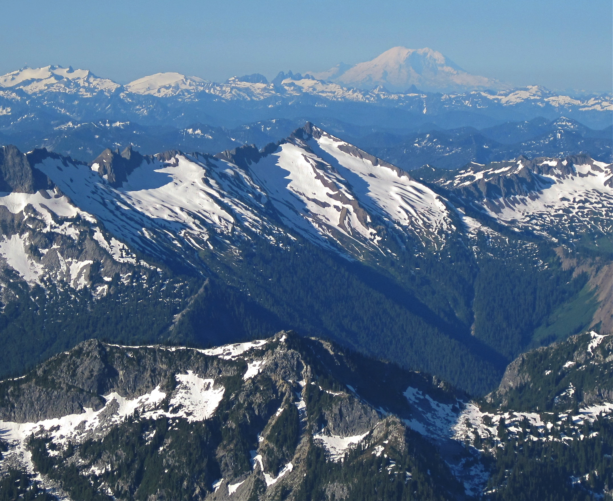 Whittier Peak seen from Clark Mountain. Glacier Peak Wilderness of WA state